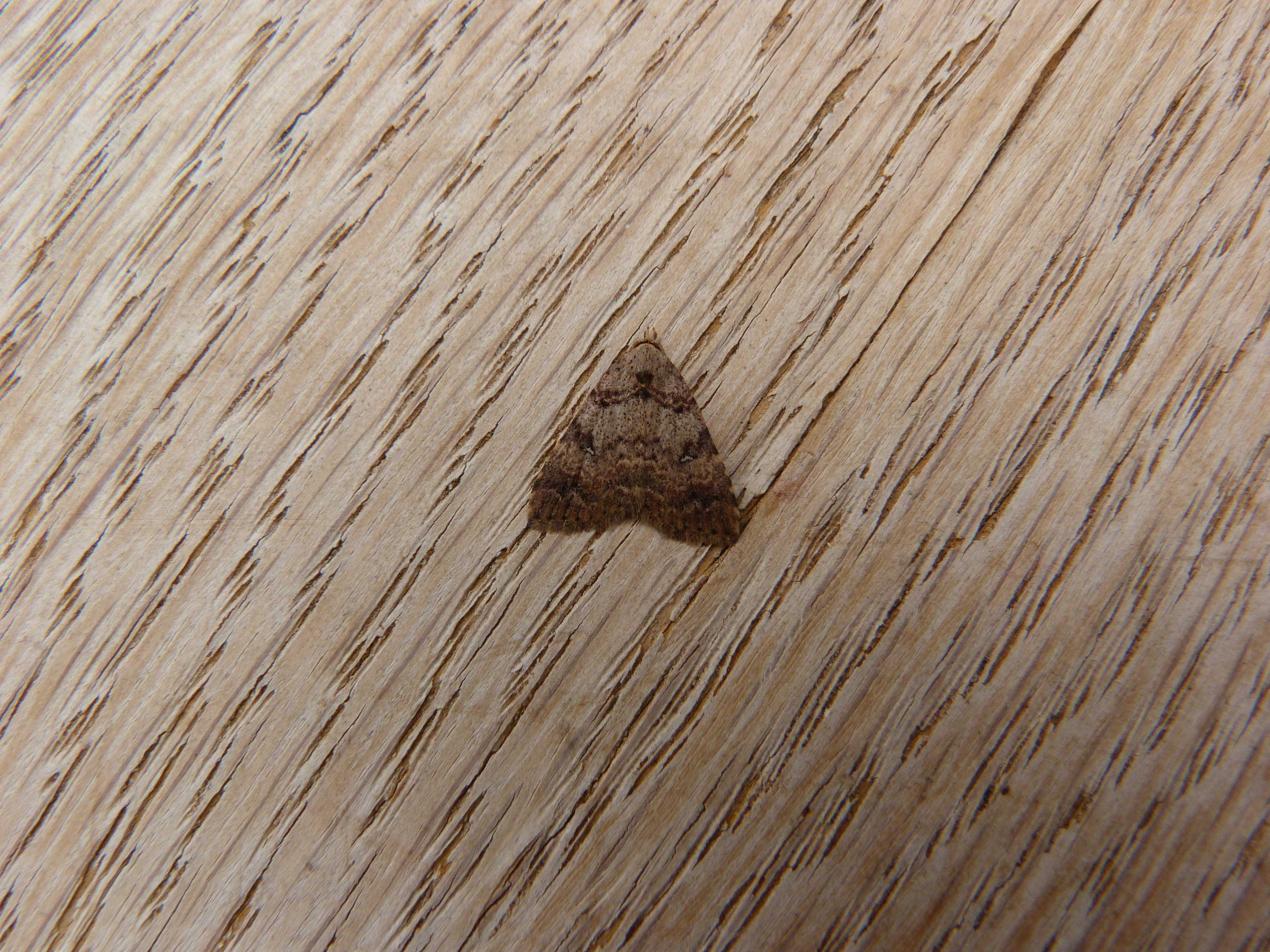 Alapadna pauropis Turner, 1902, to MV light, Merimbula, NSW, 19/20 August 2011